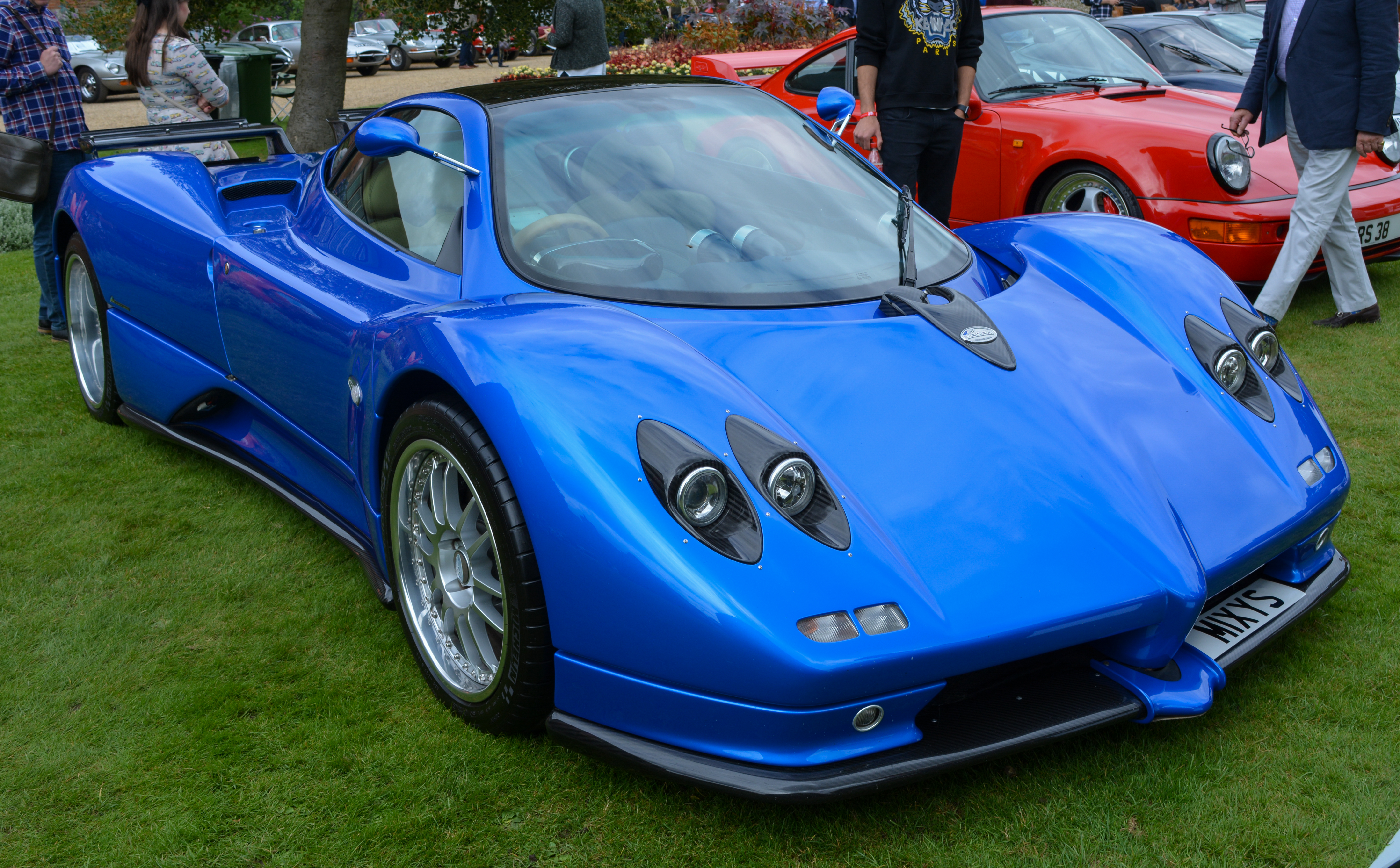 2003 Pagani Zonda C12 S 7.3 Front Taken at the Concours d'Elegance Hampton Court 2019